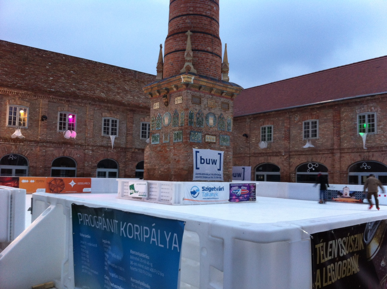 Skating rink in Zsolnay cultural quarter, Pécs, Hungary